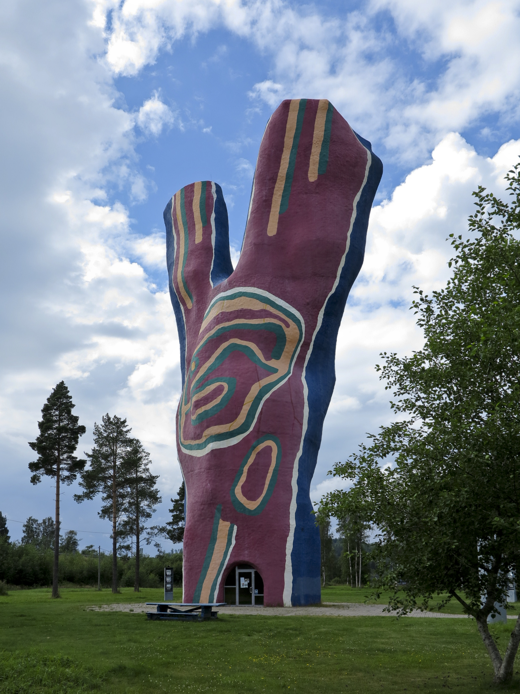 Timrå kommun, Y, art-work by Swedish sculptor Bengt Lindström 1995, placed near high-way E4 close to Midlanda Airport. (Y=traditional code for Västernorrlands län)